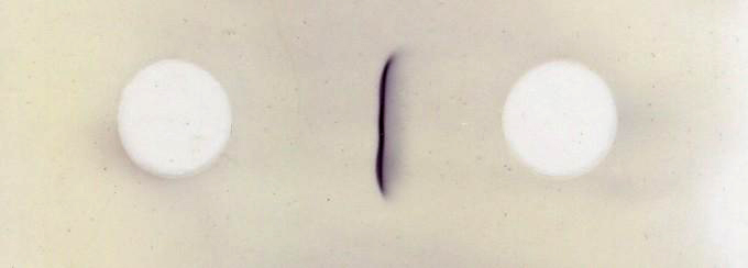 Plasmodium Glutamate dehydrogenase (pGluDH) precipitated by host antibodies using counterimmunoelectrophoresis.